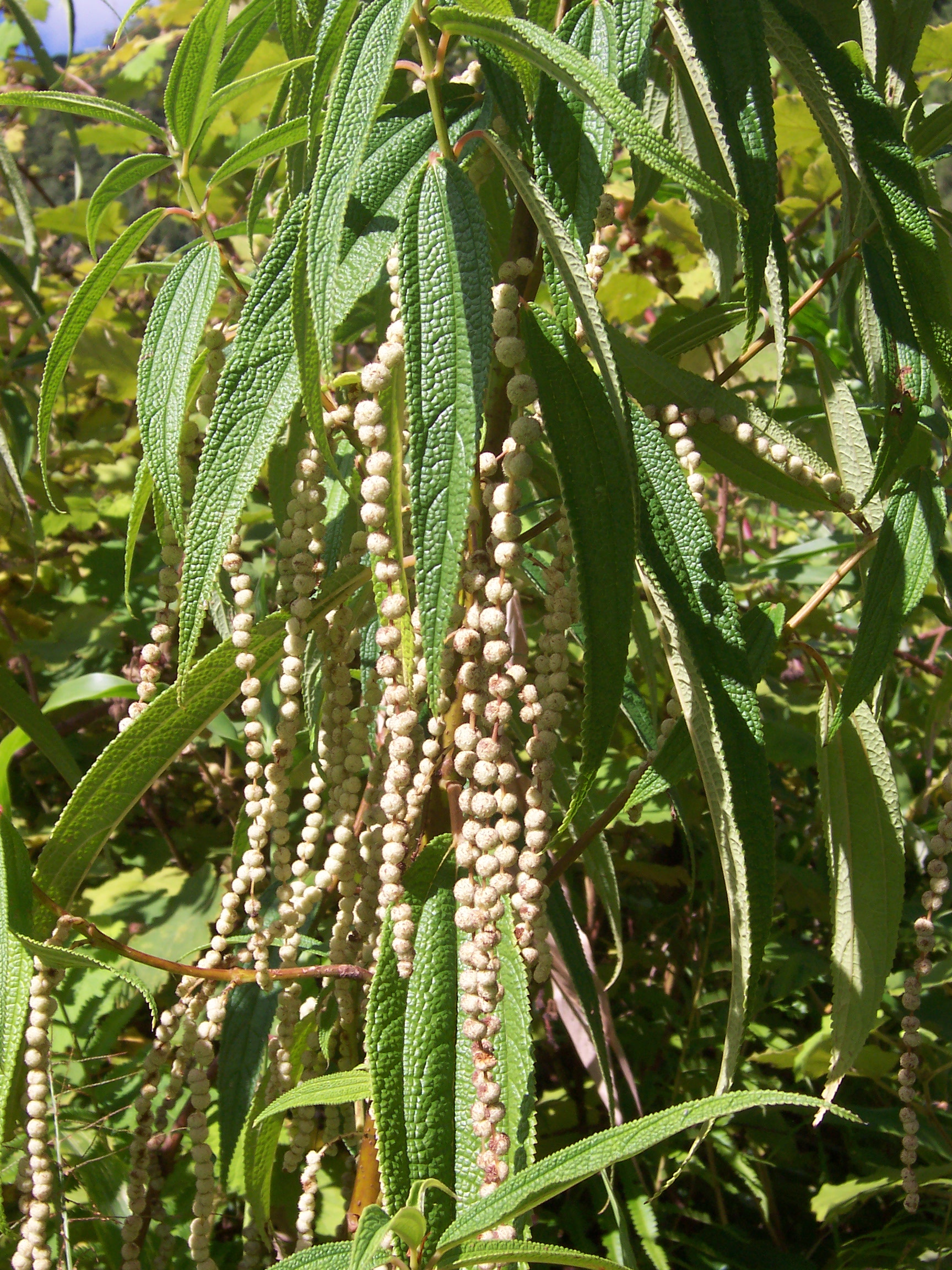 Boehmeria penduliflora Wedd. ex D.G. Long - (Réunion island) - Urticaceae family